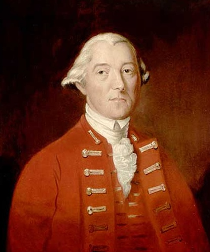 British General Guy Carleton